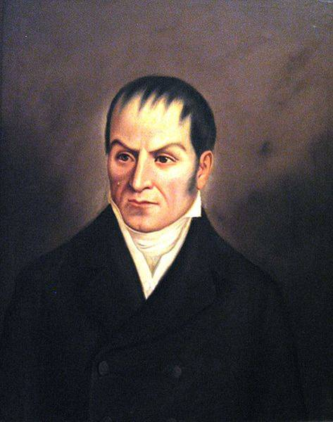 Camilo Torres Tenorio (22 November 1766 – 5 October 1816) was a Colombian politician and one of the early leaders of the nation's independence struggle against Spanish rule.